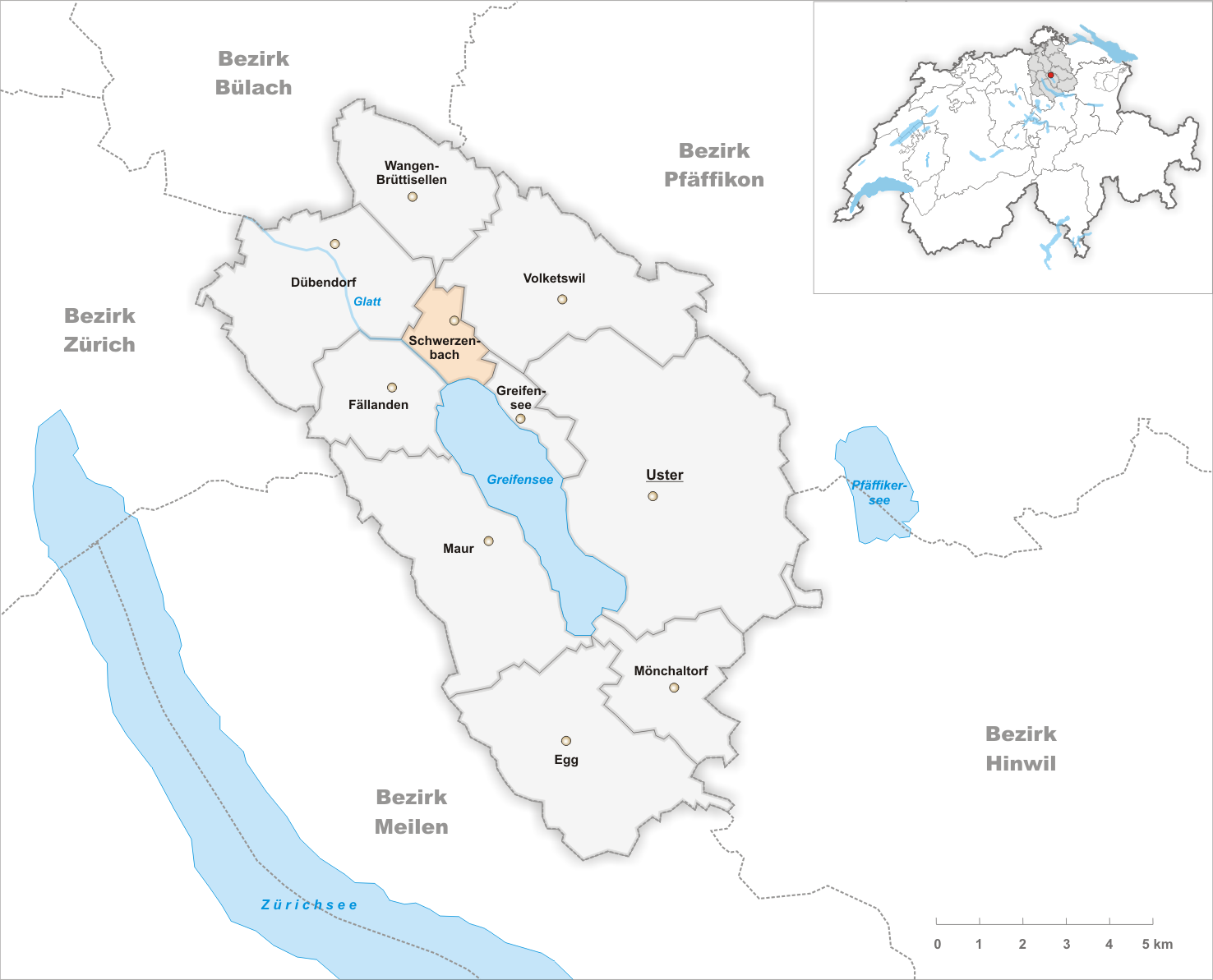 Municipality Schwerzenbach